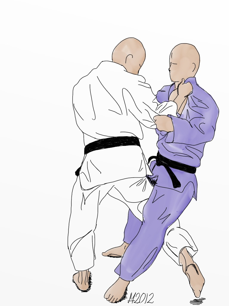 Illustration of the judo throw o-uchi-gari, or major-inner-reap, where you push the opponent backwards and throw by sweeping the inside of the opponents leg with the back of your leg.